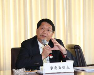 Mark Lii